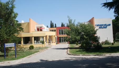 GYTE Foreign Languages Building